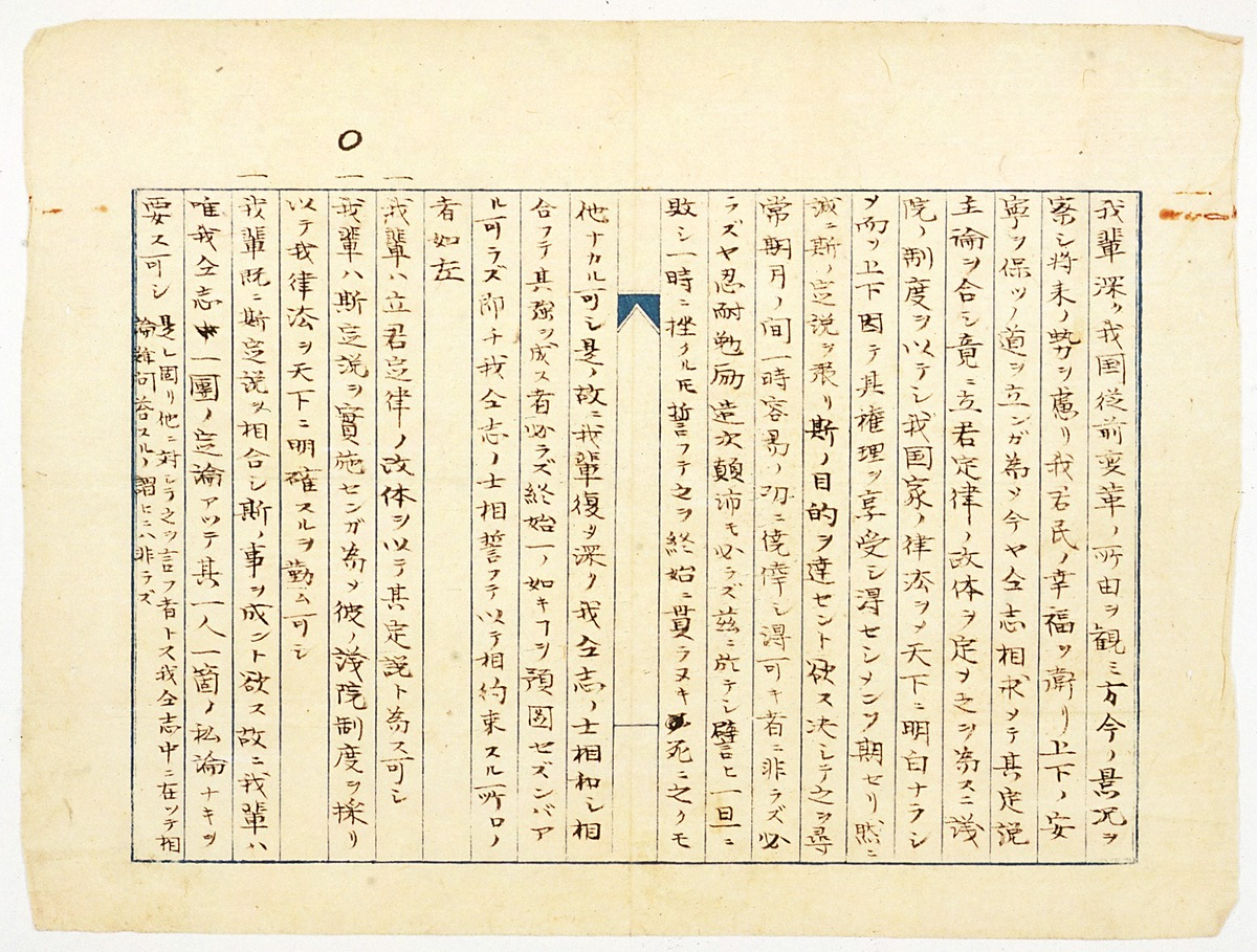 Draft Proposal of the Osaka Conference Agreement